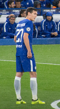 Andreas Christensen in 2017 playing against Qarabag